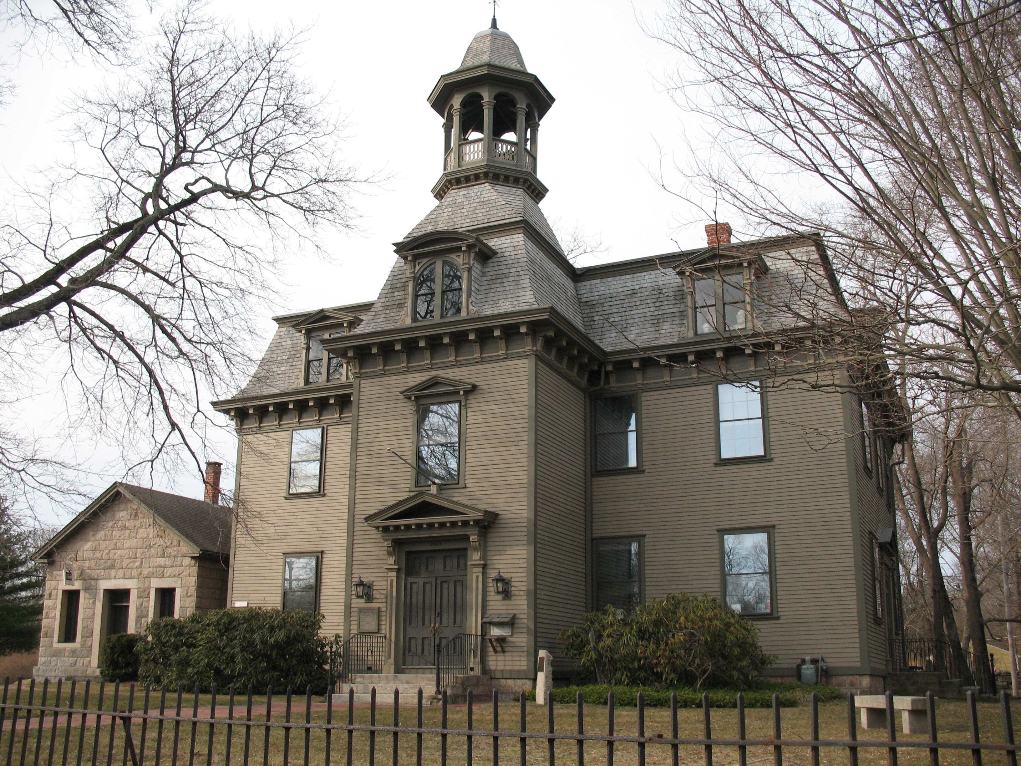 This is a photo of the Kings County Courthouse, originally built in 1775. It was renamed the Washington County Courthouse after the Revolutionary War when RI changed the name of the county in honor of General George Washington. This building served as the county seat for Washington County until 1892, and is currently the home of the Kingston Free Library. It is located at 2605 Kingstown Rd (RT 138), Kingston, RI 02881, at the main entrance to the University of Rhode Island.